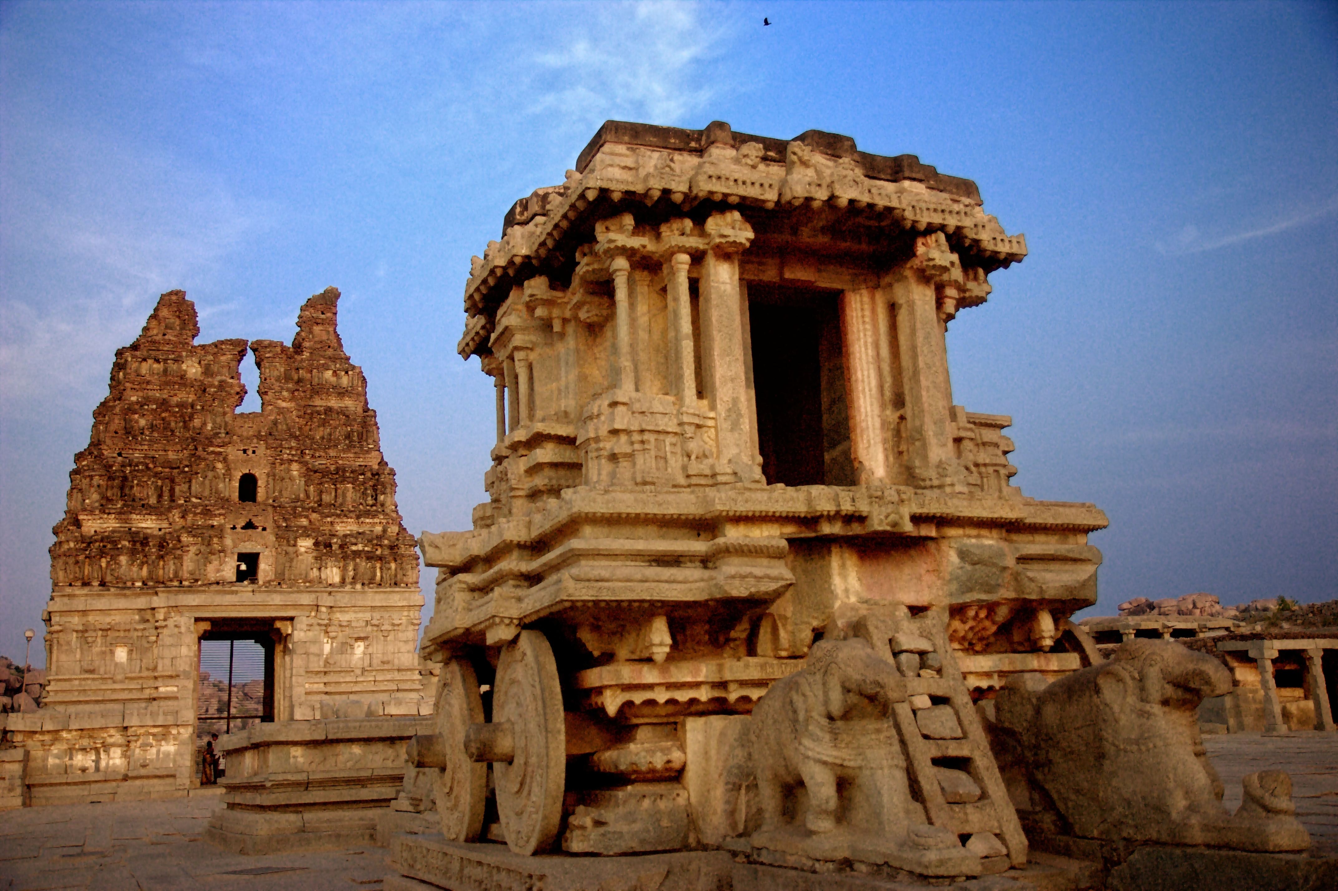 This Stone chariot is of great fame in Vittala Temple, Hampi . Its stone wheels, each shaped in the form of a lotus, are capable of revolving. It represents the sprakling creativity of the artistes of the fifteenth century. Temple chariots are often mobile reproductions of a temple. The stone chariot here is in turn a static version of the mobile temple chariot